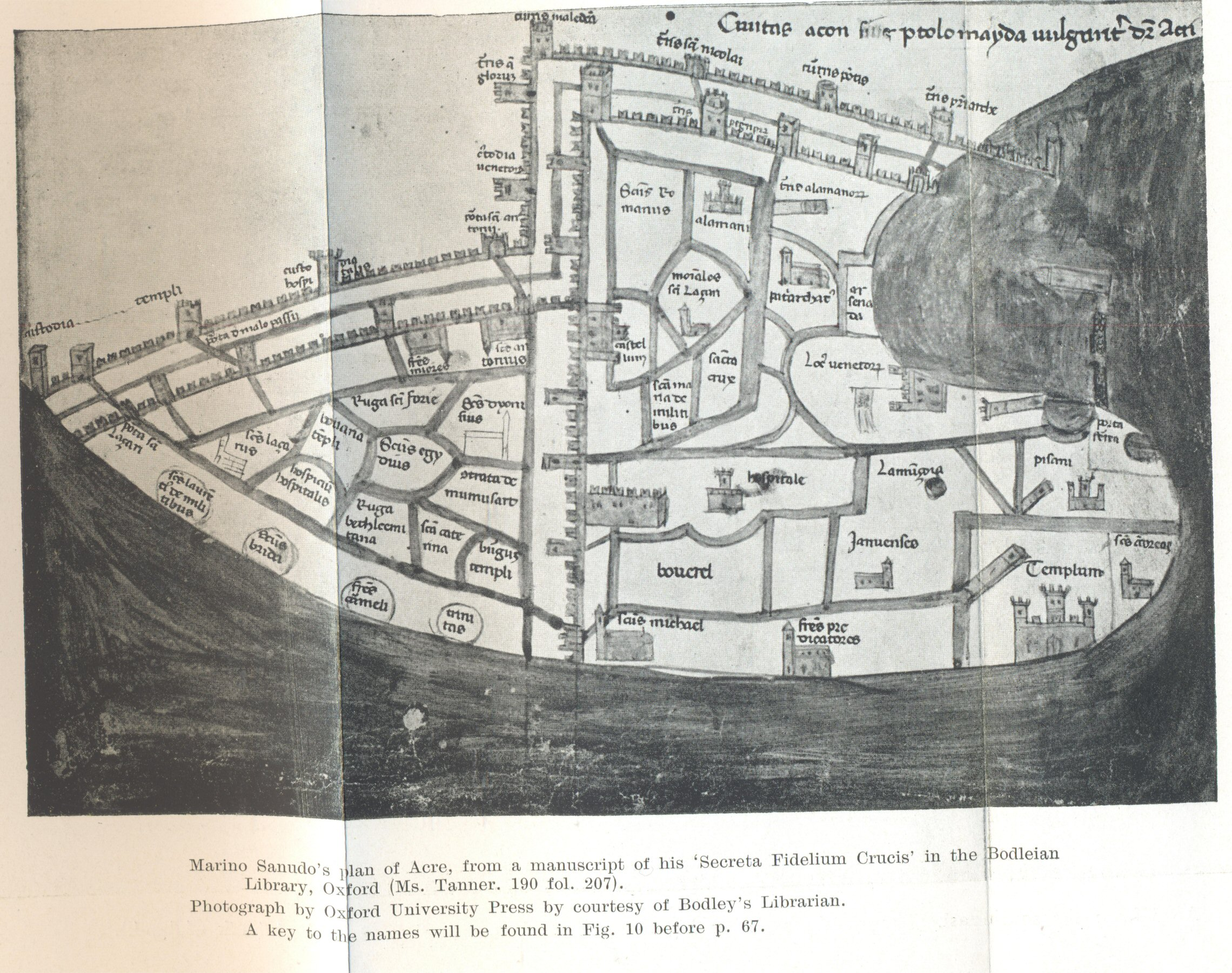 Marino Sanudo's plan of Acre, Israel